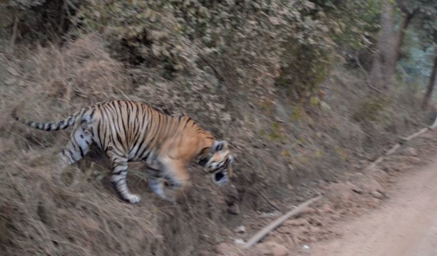 Tigers were reintroduced in the Sariska Tiger Reserve in Rajasthan India after the sanctuary lost all its tigers to poachers, (Anjana Pasricha/VOA).